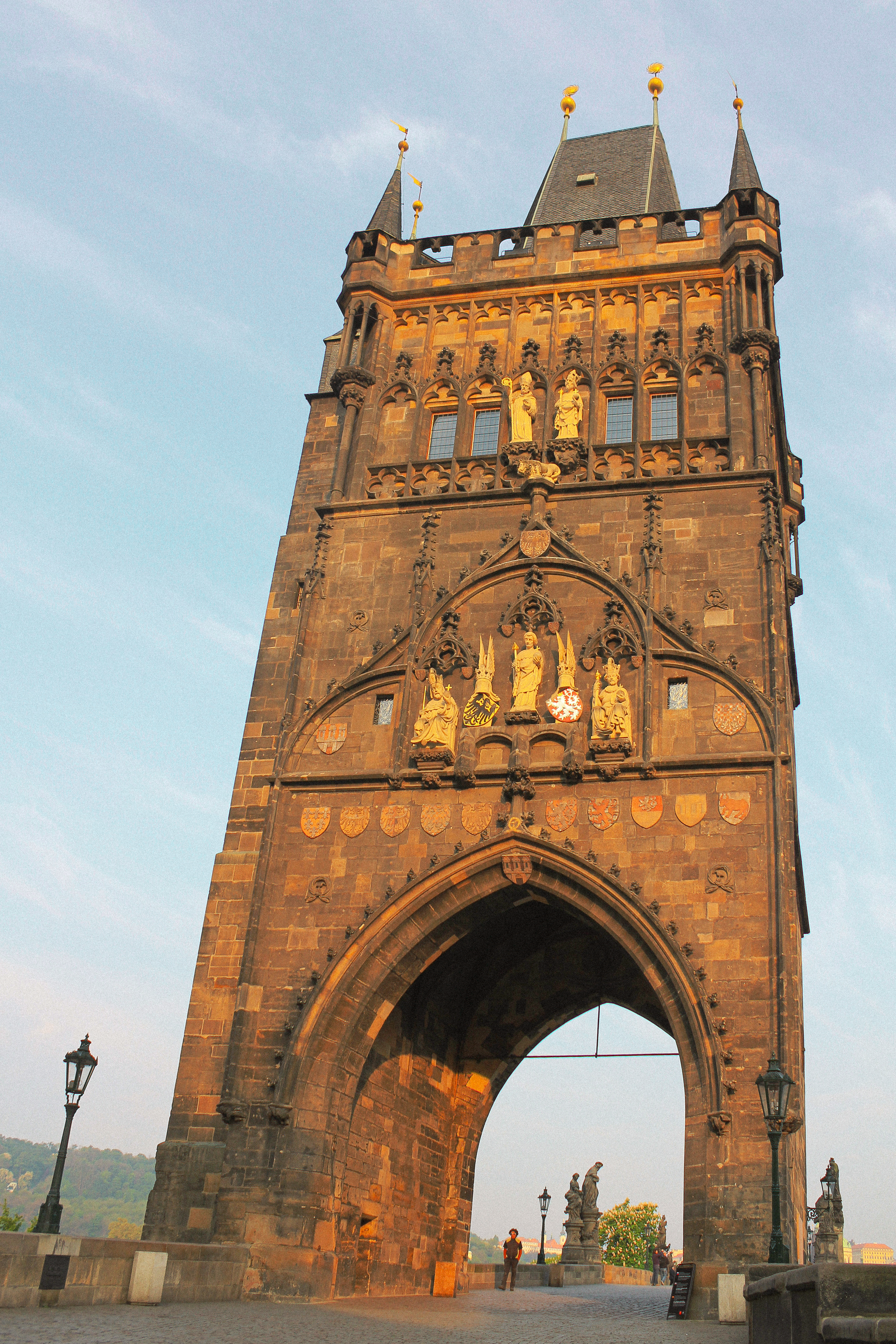 The Gothic tower of the Charles Bridge in Prague, seen from Old Town.